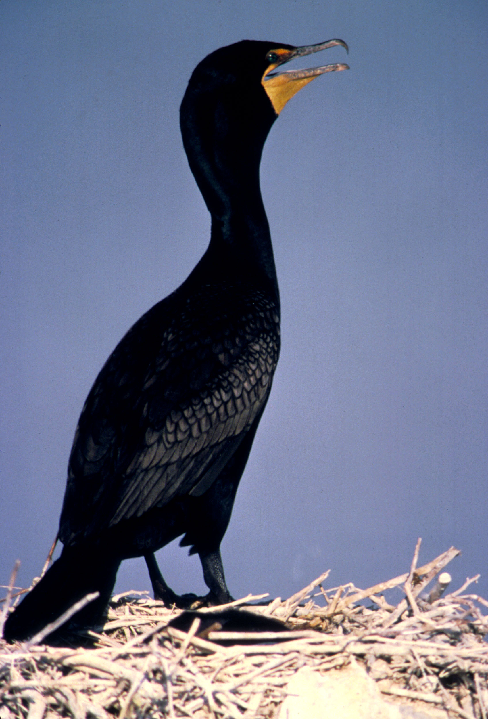 Double-crested Cormorant (Phalacrocorax auritus)